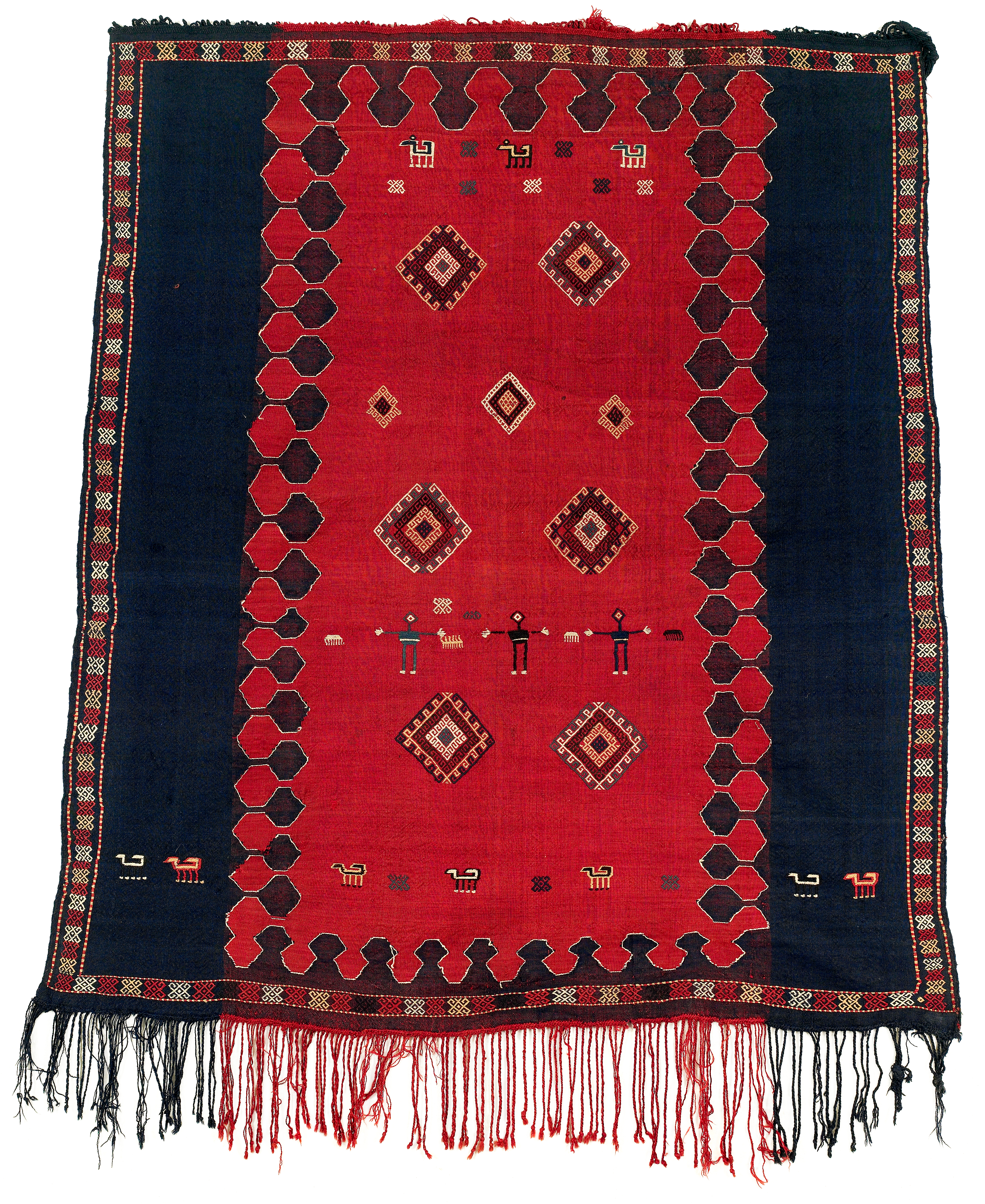 Collection VOK: Caucasus - Persia 22 The exceptional quality of this red- and blue-ground Azeri cover (shadda) is striking. The ground is very finely woven, and the designs in the sumakh and brocading techniques are drawn with care. Six nested diamonds and three smaller diamonds adorn the field. The upper and lower ends of the field present a row of three and seven four-legged animals respectively, while three human figures depicted below the centre stretch out their arms horizontally as if attempting to join hands. The open red field and the wide, deep blue lateral sections are interlocked by large reciprocal trefoils outlined in white. Formerly in the Chapman Collection, Chicago, the cover was presented in 1969 at the influential flatweave exhibition, "From the Bosporus to Samarkand. Flat-Woven Rugs" at the Washington Textile Museum. Later it was acquired by Bernheimer, the Munich art dealers, where Vok purchased it. – Very good condition. Literature: AMPE, PATRICK & RIE, Textile Art. A personal choice (Kailash Gallery). Antwerp 1994, no. 31 Published: LANDREAU, ANTHONY N. & PICKERING, W. R., From the Bosporus to Samarkand. Flat-Woven Rugs. (Textile Museum exhibition catalogue) Washington, D.C. 1969, no. 112 *** VOK, IGNAZIO, Vok Collection. Anatolia. Kilims and other Flatweaves from Anatolia. (Text by Udo Hirsch) Munich 1997, no. 39 From: South Caucasus, Azerbaijan Dimensions: 197 x 162 cm Age: Second half 19th century Result EUR7,320.00